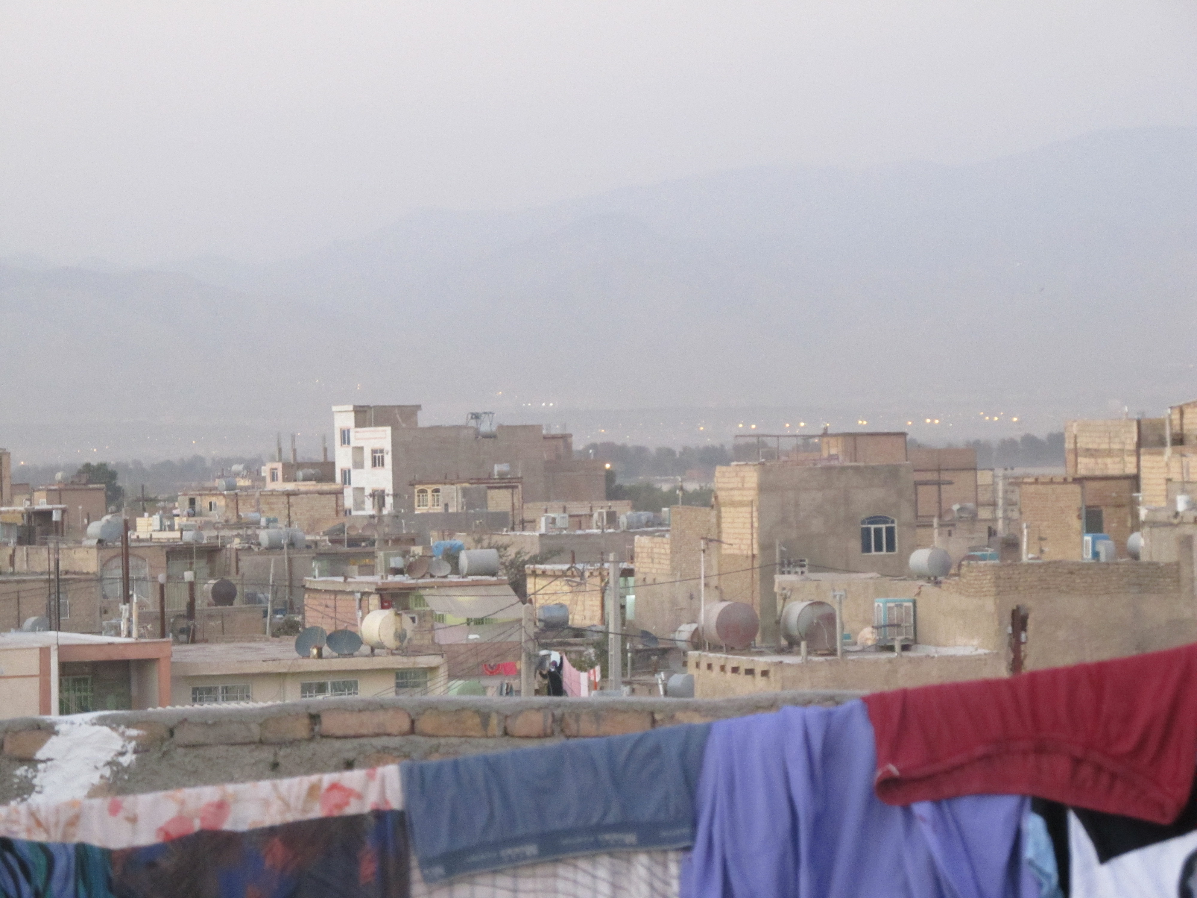 A photo for Abbasabad article.